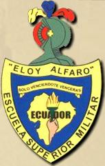 coat of arms of ESMIL